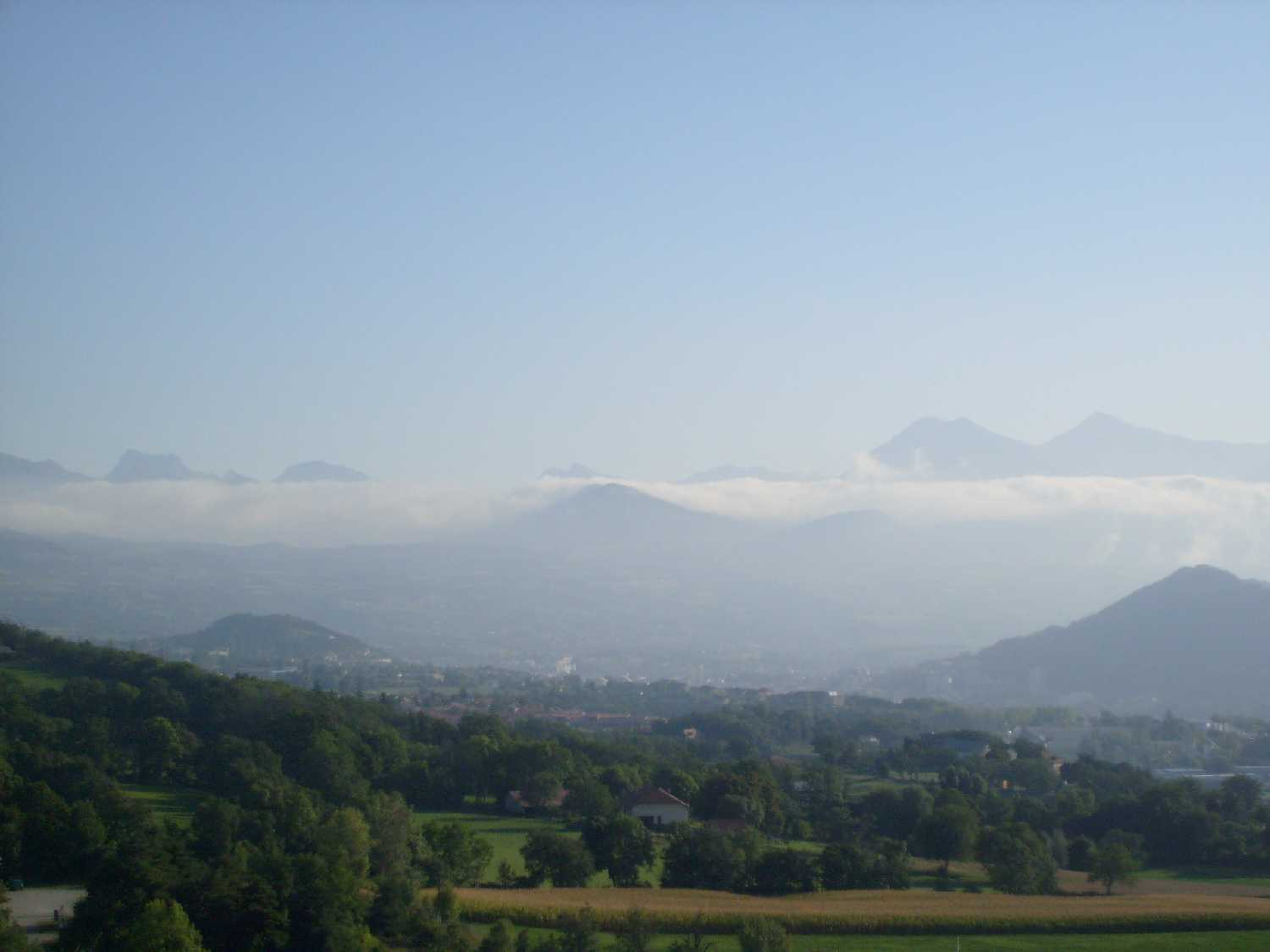 'La barre de Bayard': clouds over Bayard pass (near Gap, Hautes-Alpes, France)